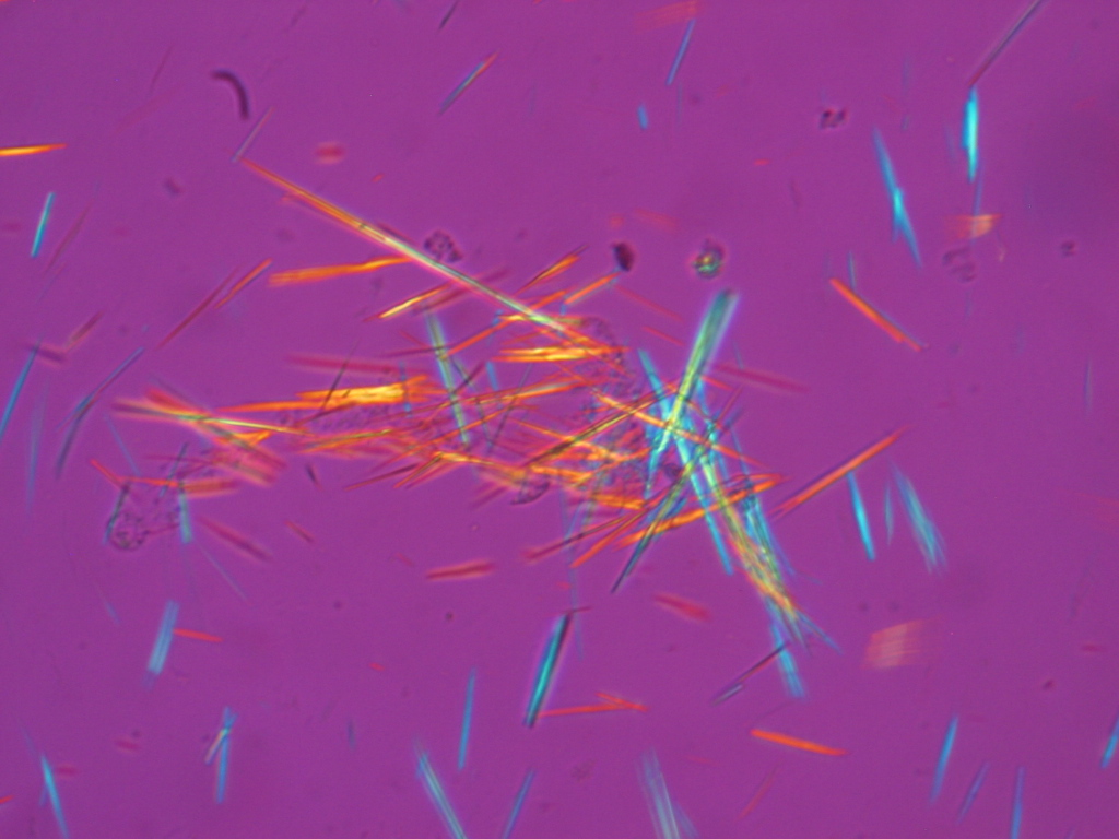 Spiked rods of monosodium urate crystals photographed under polarized light from a synovial fluid sample. Formation of en: monosodium urate crystals in the joints are associated with gout.